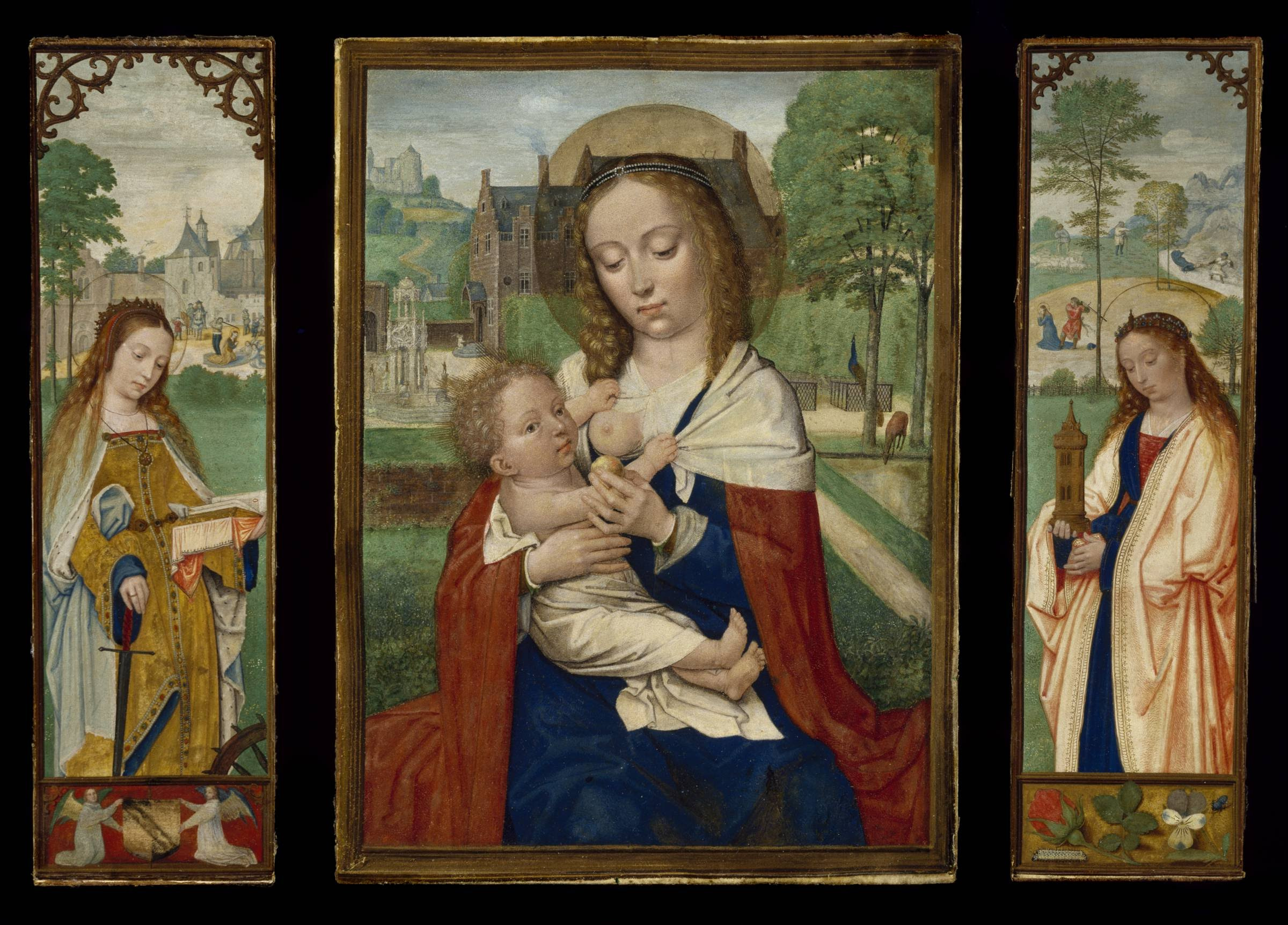 This image is available from the Netherlands Institute for Art Historyunder digital ID 50348. This tag does not indicate the copyright status of the attached work. A normal copyright tag is still required. See Commons:Licensing.